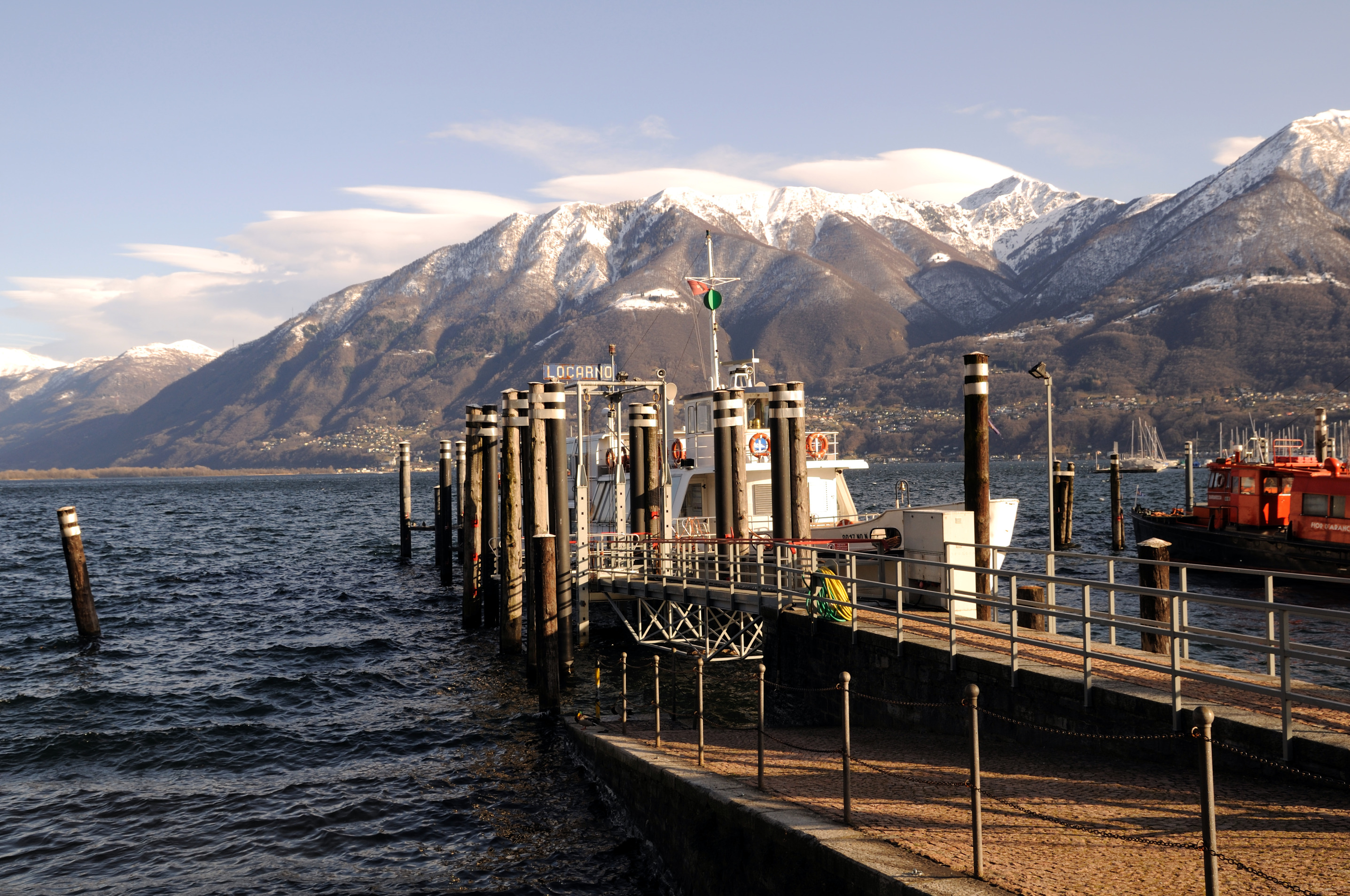 Locarno: shipping pier